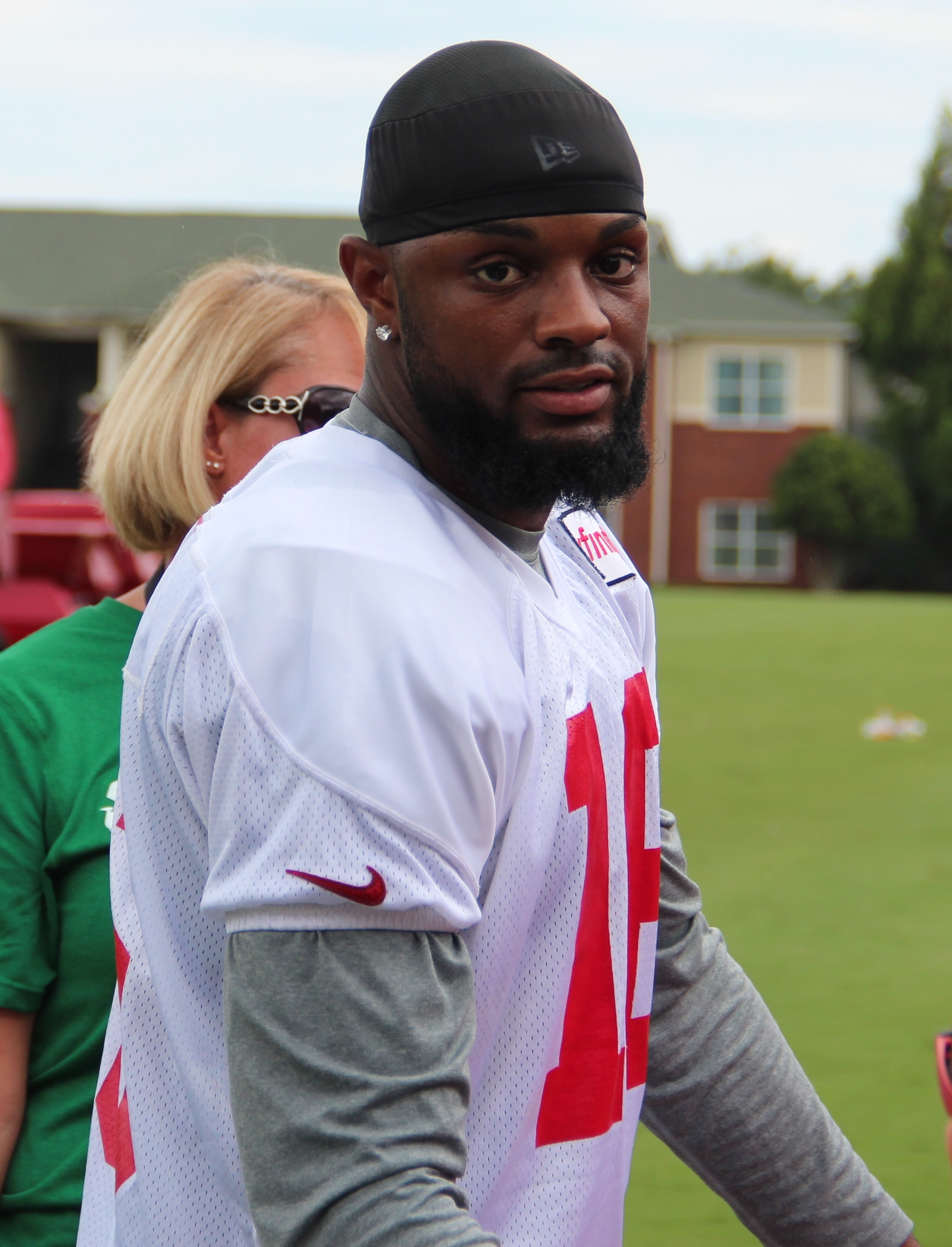 Justin Hardy at Falcons training camp, 2015